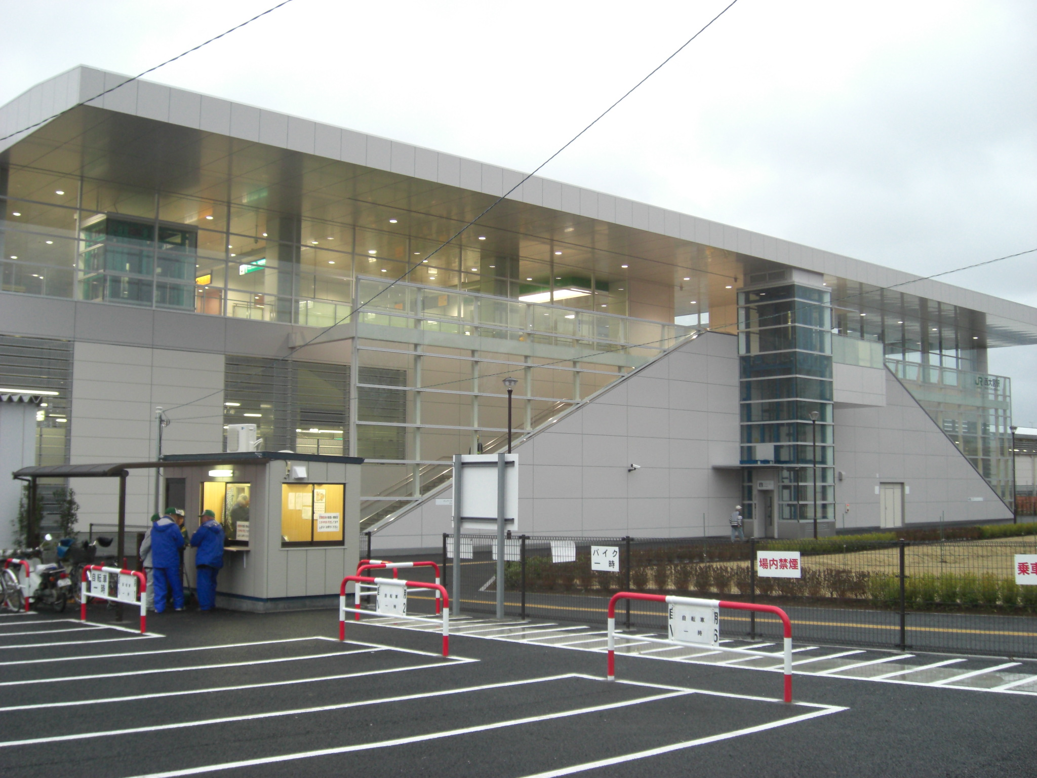 South exit of Nishi-Ōmiya Station